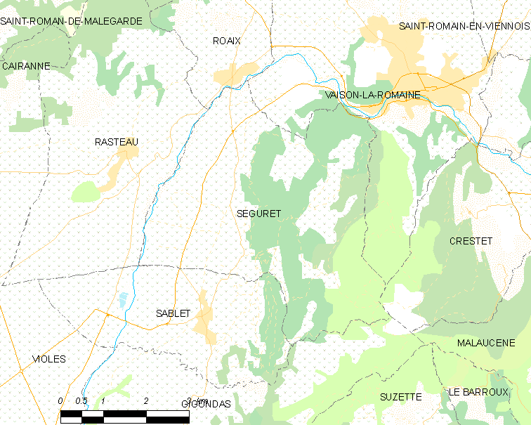 Map of French municipality Séguret